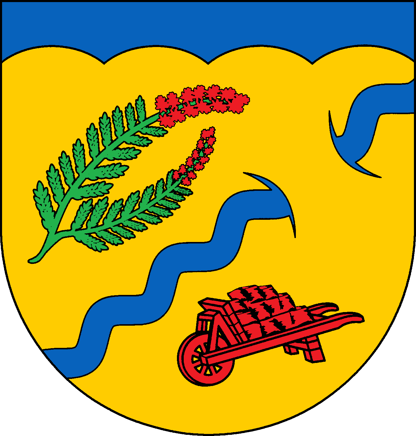 Coat of arms of the municipality Löwenstedt in Schleswig-Holstein, Germany.